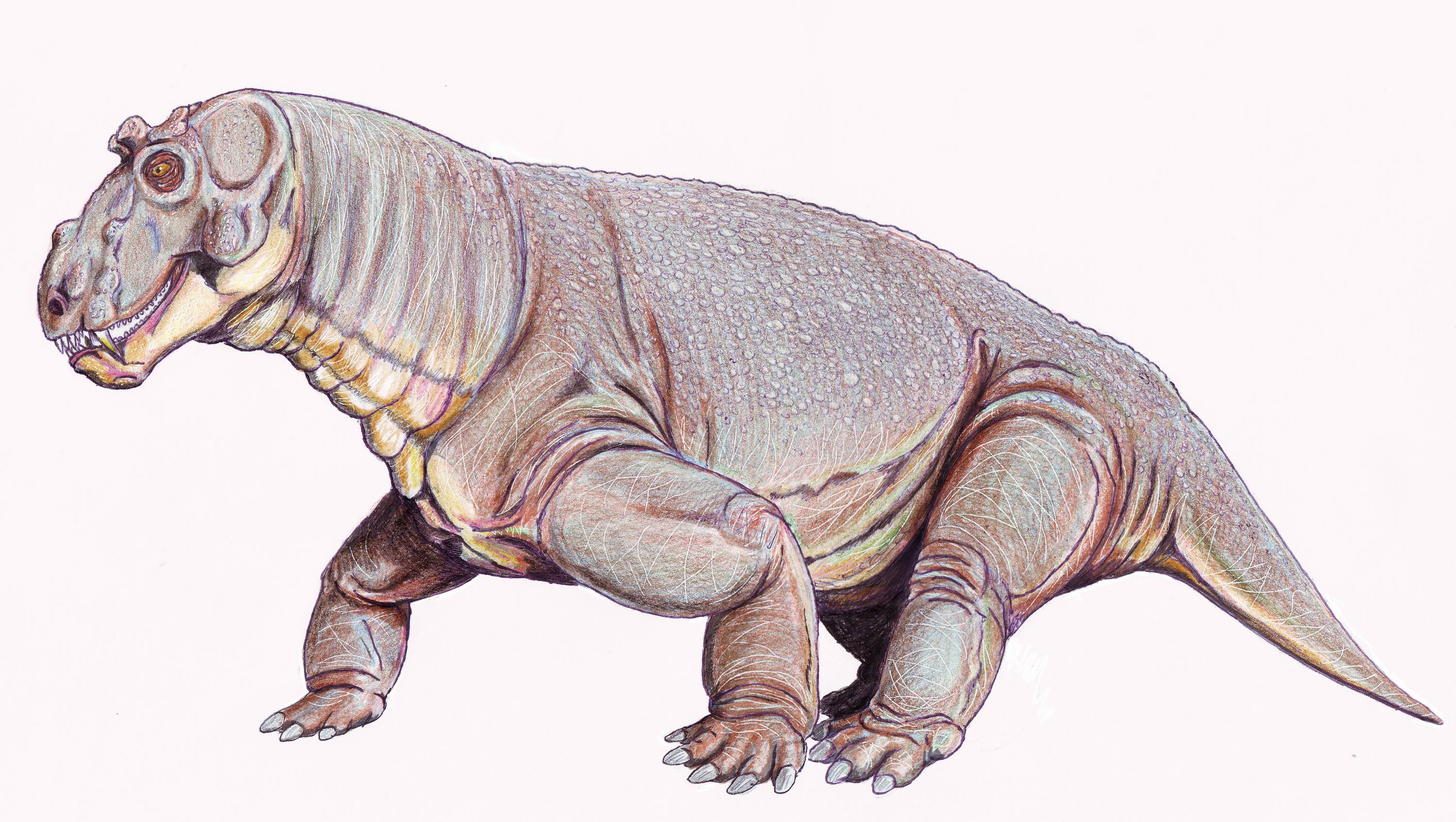 Estemmenosuchus uralensis from Middle Permian of Ural Region